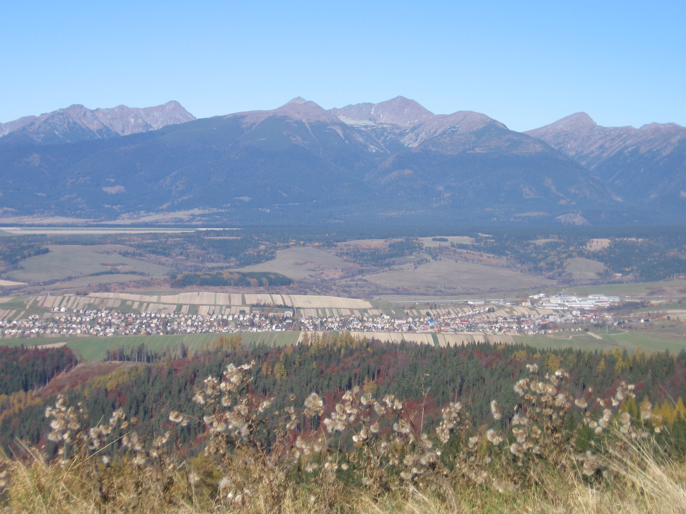 Východná from the Pumped-storage hydroelectricity plant Čierny Váh